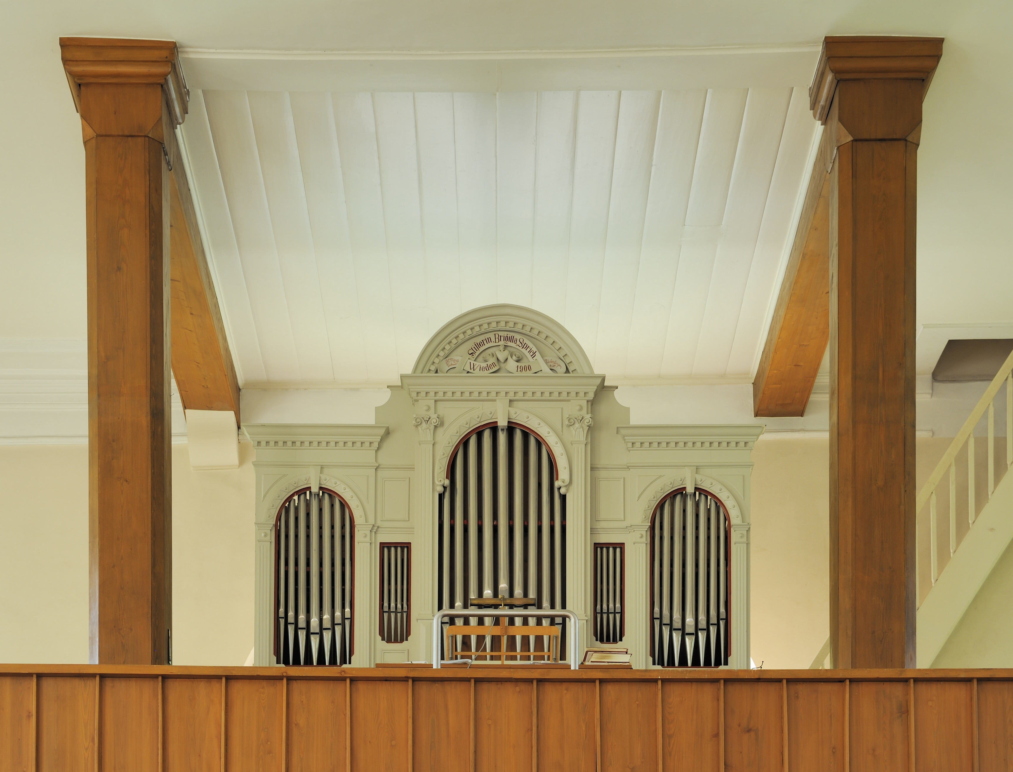 Wieden: All Saints Church